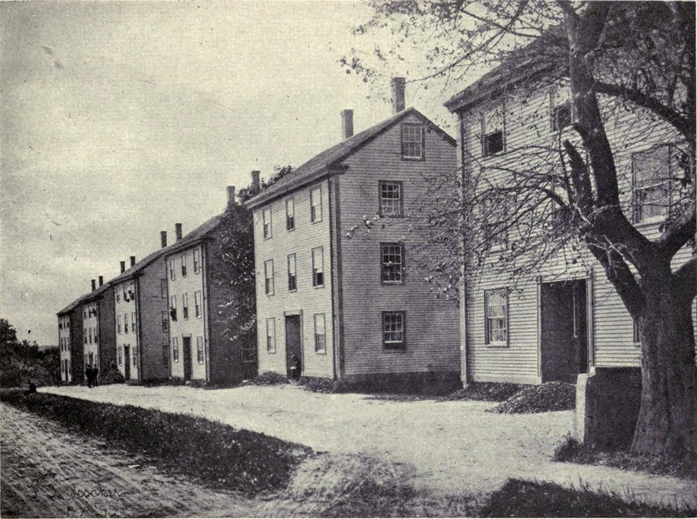 Latin Commons dormitories on Phillips Street on the Phillips Academy campus.